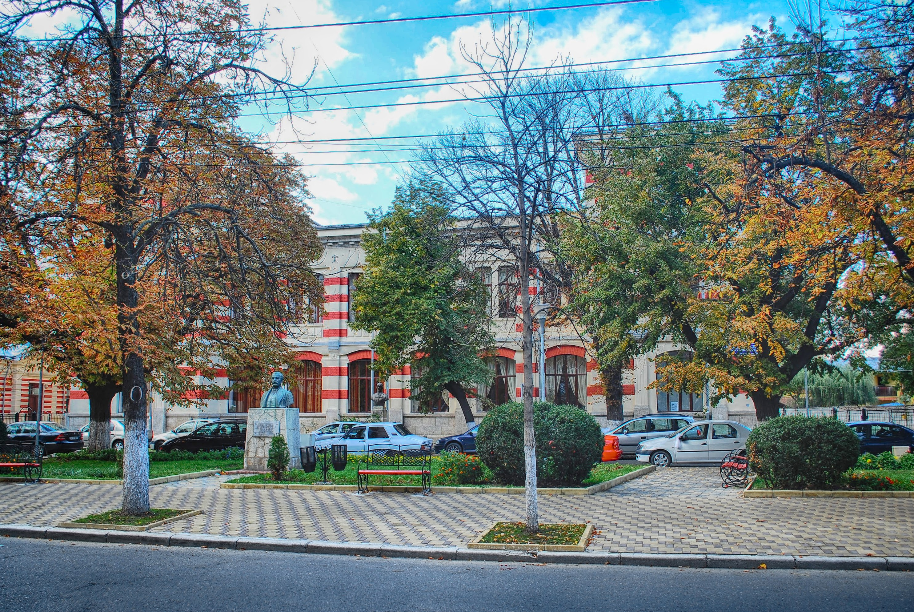 Main building of „Aviation Captain Mircea Bădulescu” school in Buzău, Romania